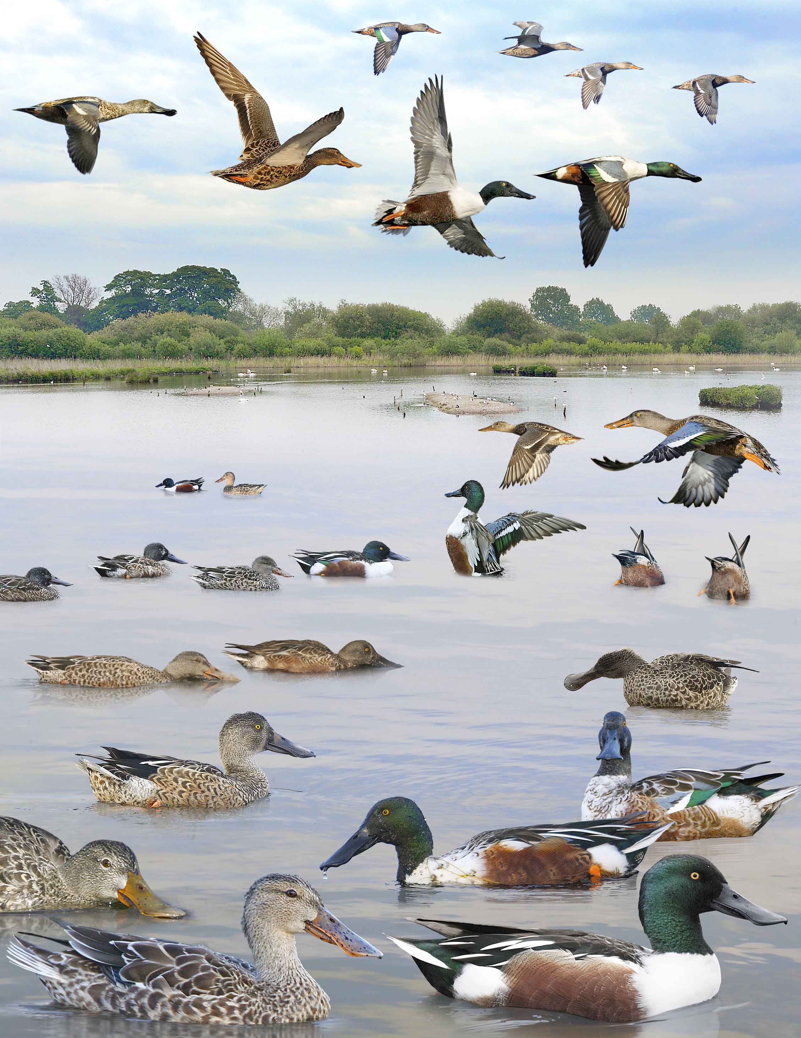 Northern Shoveler from the Crossley ID Guide Britain and Ireland